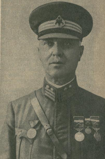 Galip Pasha (Pasiner) in 1930